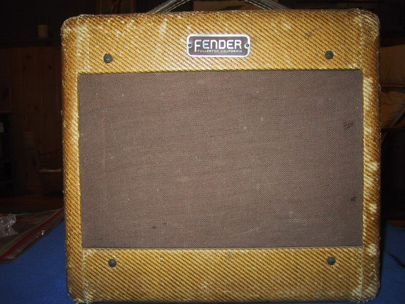 1953 Fender Champ (model 5C1), otherwise known as a "wide-panel tweed champ." BrotherAbel 16:31, 26 April 2007 (UTC)BrotherAbel